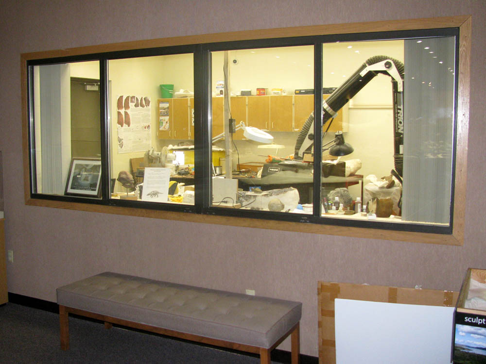 Fossil preparation laboratory at Dickinson Museum Center, Dickinson, ND.